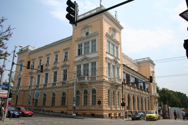 Central Military Club, Sofia, Bulgaria